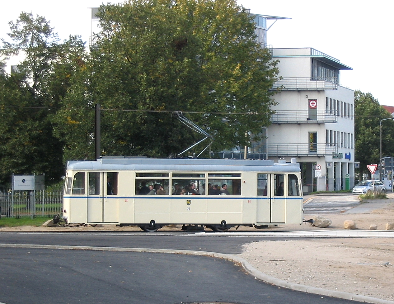 traditional tram No. 21 type "Gotha" T59ER in Schwerin (Germany) at the 2007 built BUGA-balloon loop